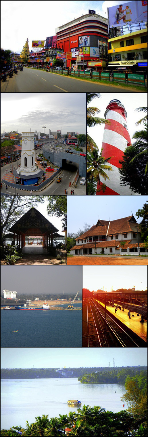 Collage of Kollam/Quilon city - One of the cities in Kerala, India with historical trade and port business background. Now known as the 'Cashew Capital of India'